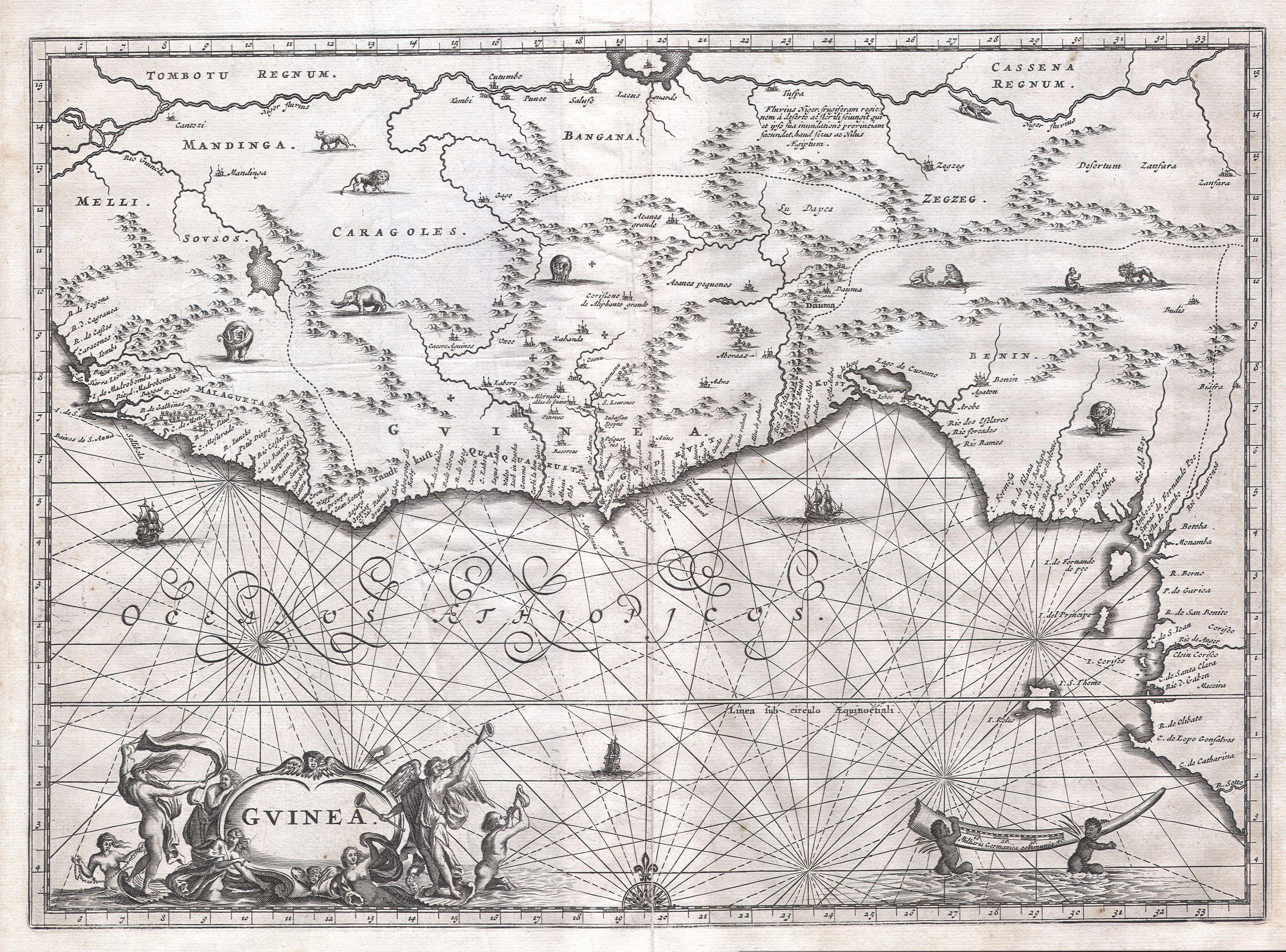 This is an extraordinary 1670 map of West Africa by English cartographer John Ogilby. Depicts the African Gold Coast, Ivory Coast, and Slave Coast from Guniea south through the modern nations of, Sierra Leone, Liberia, Mali, Burkina Faso, Cote D’Ivoire, Ghana, Togo, Benin, Nigeria, Cameroon, Equatorial Guinea and Gabon. Ogilby modeled this map after the 1639 Hondius / Janesson map. Here was can see the practice satirized by Jonathan Swift regarding the lack in information on the interior, they had to “place elephants for want of towns”. Indeed the interior is decorated with stylized renderings of African animals including lions, elephants, cheetahs, and apes. On the water several sailing vessels are depicted. In the lower left an elaborate decorative Cartouche labeled the region simply Guinea. On the bottom right two cherubic Africans haul a gigantic elephant tusk.